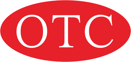 Chinese standard sign for "over-the-counter drug - type A"